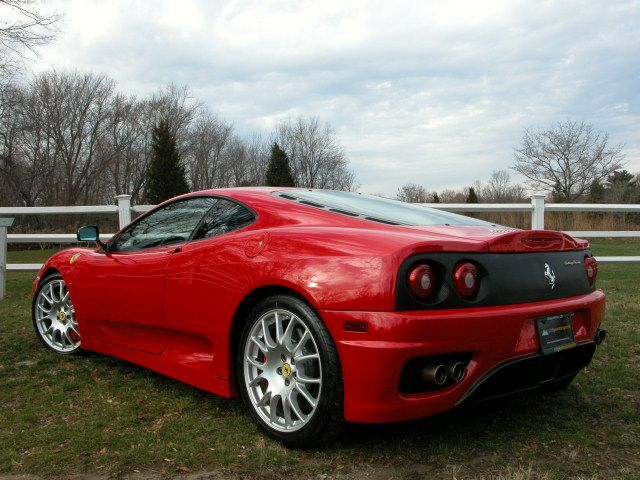 Ferrari 360 Challenge Stradale